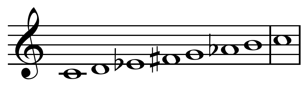 Hungarian minor scale on C